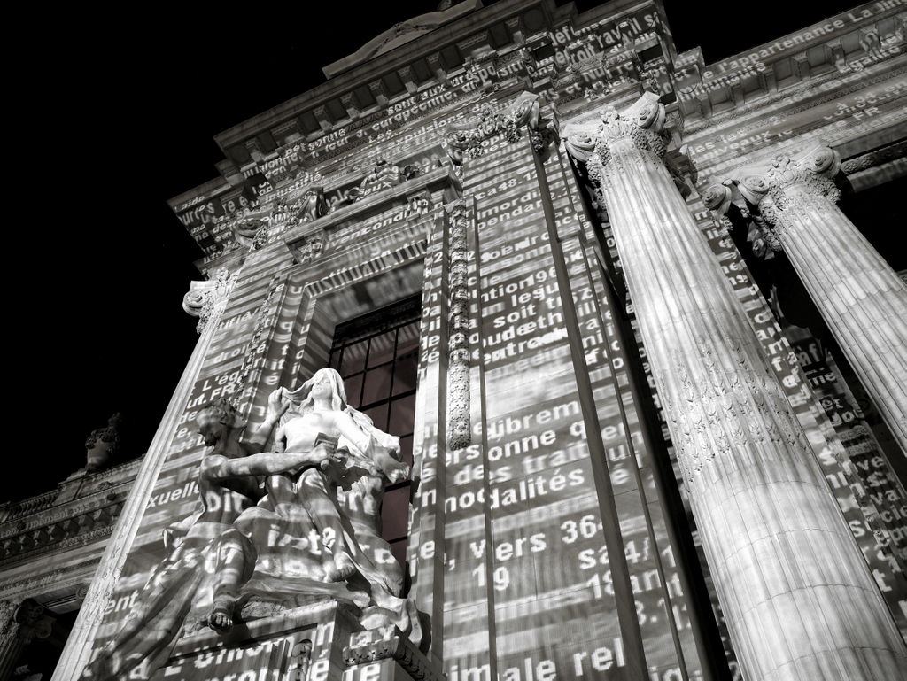 Charles Sandison projection: "Manifesto (Proclamación Solemne)" (2008) on facade of Grande Palais, Paris as part of the exhibition: "Dans la nuit, des images. Création visuelle et numérique en Europe"